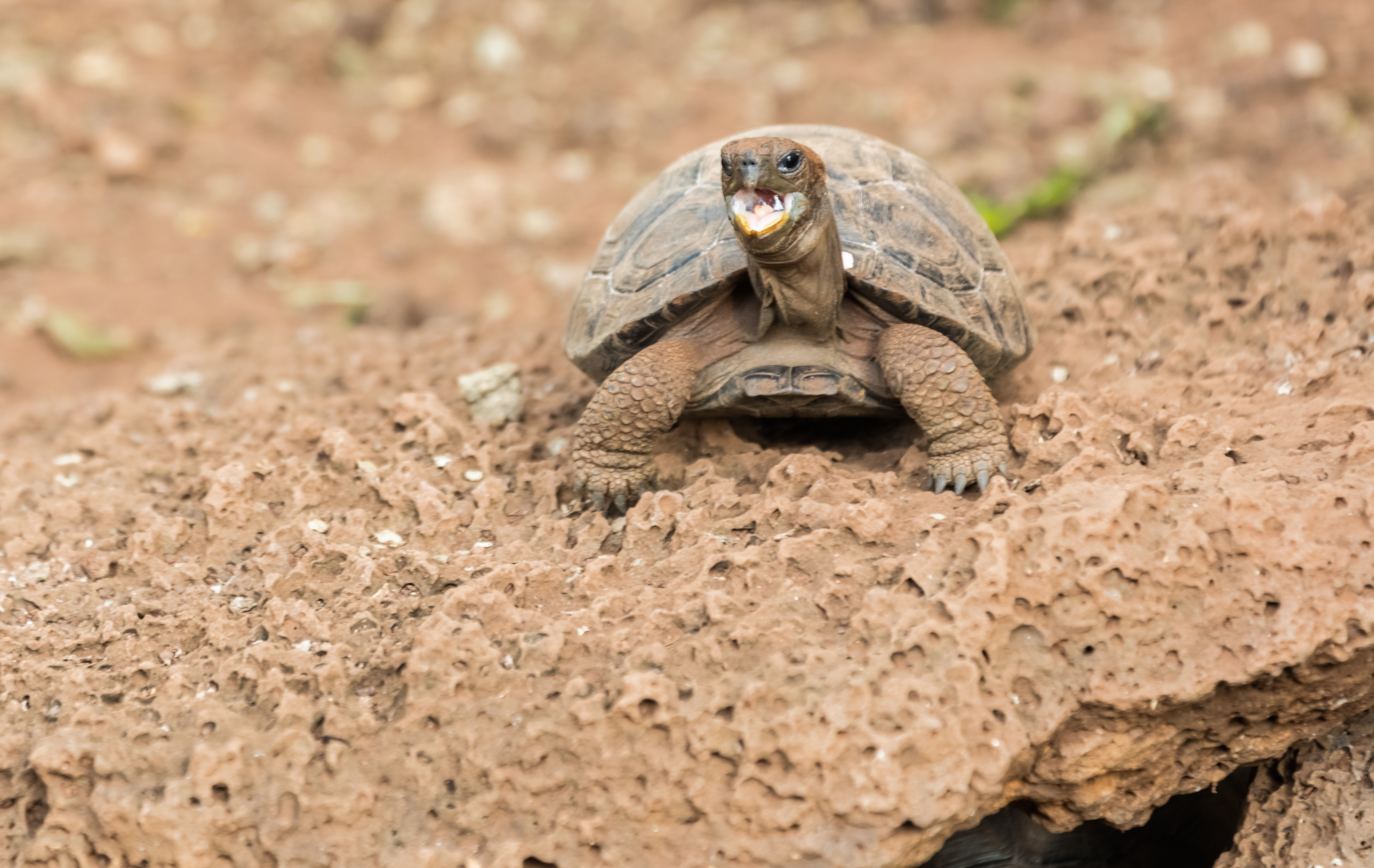 San Cristobal Island Galapagos tortoise (Chelonoidis chathamensis), Santa Cruz Island, Galapagos Islands, Ecuador